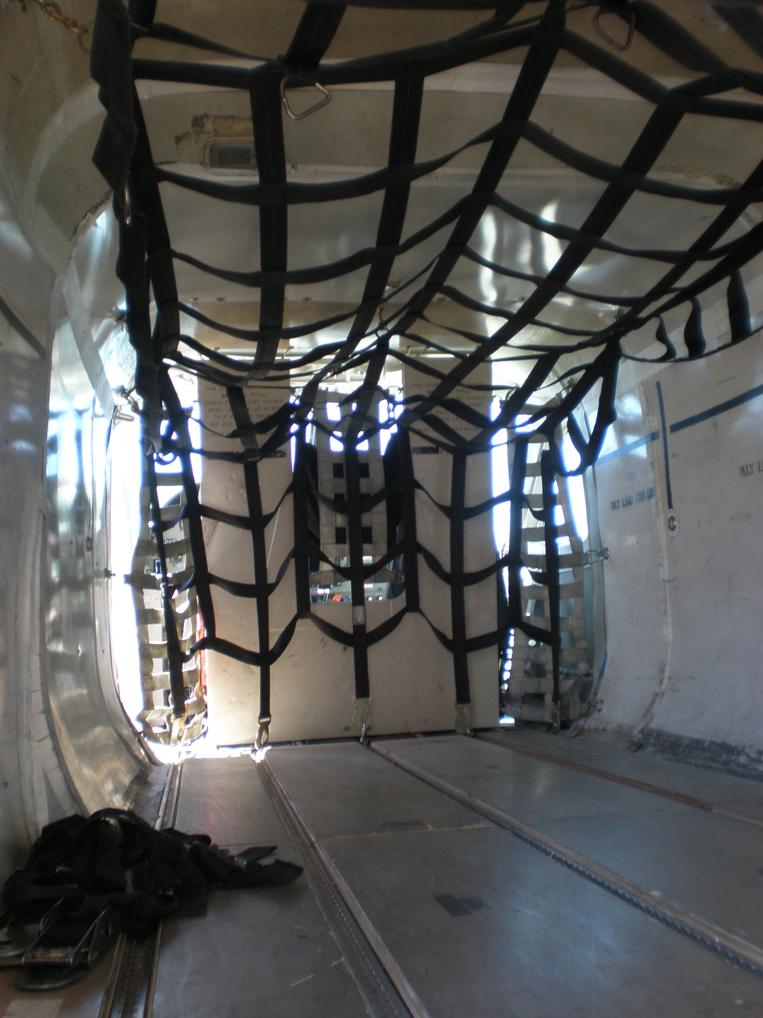 The cargo area of a FedEx Cessna 208B Grand Caravan at the Pacific Coast Dream Machines vehicle show at the Half Moon Bay Airport in Half Moon Bay, California.